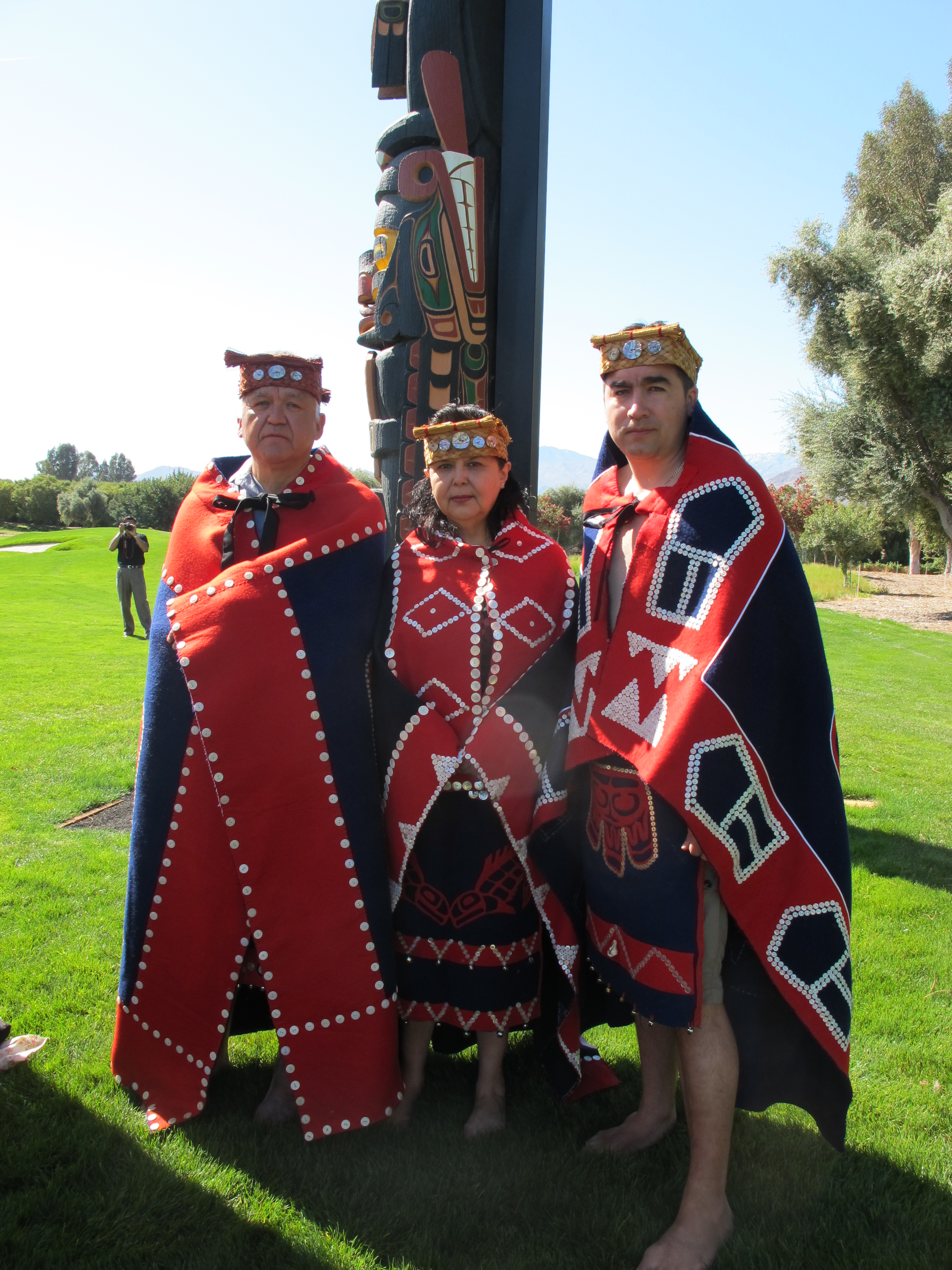 Canadian artist Stanley Hunt (left) poses with his wife, Lavina and their son Jason Hunt.